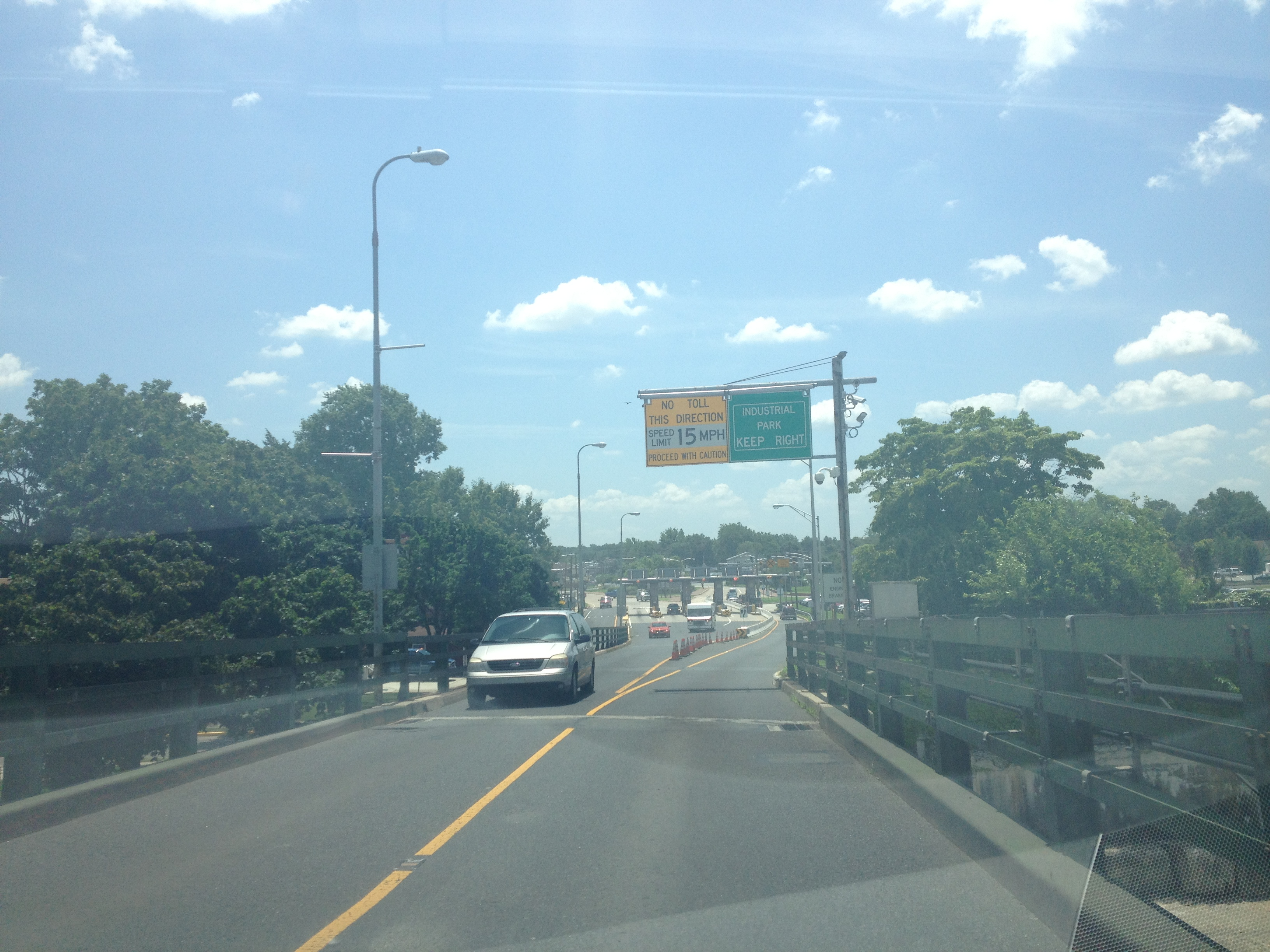 Eastbound New Jersey Route 413 approaching the westbound toll plaza for the Burlington-Bristol Bridge in Burlington, New Jersey